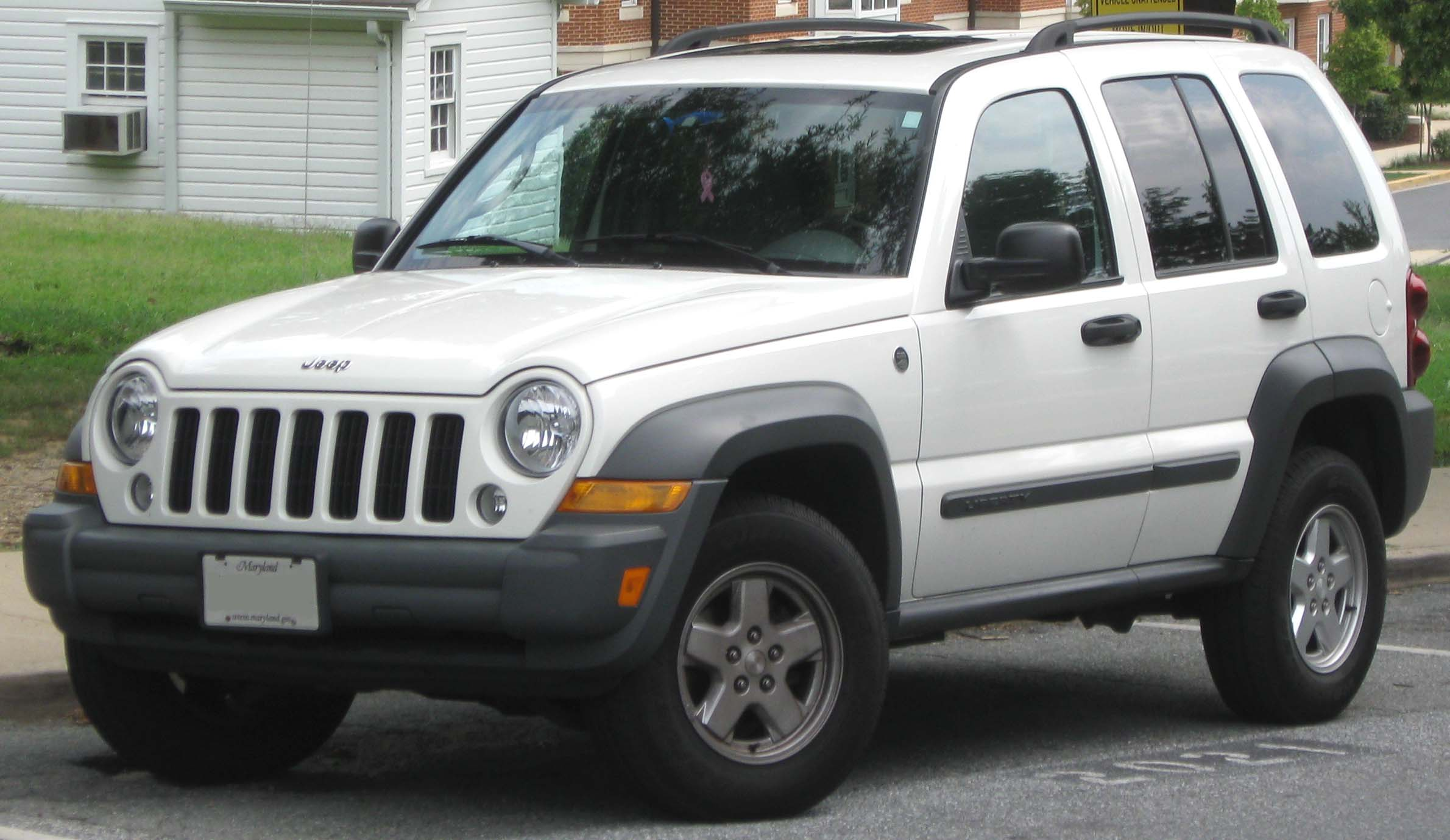 2005-2007 Jeep Liberty photographed in College Park, Maryland, USA.